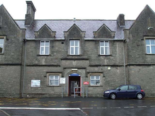 Workhouse, Enniskillen. It forms part of the Erne hospital complex - see close-up of crest above the entrance with date here 1406404